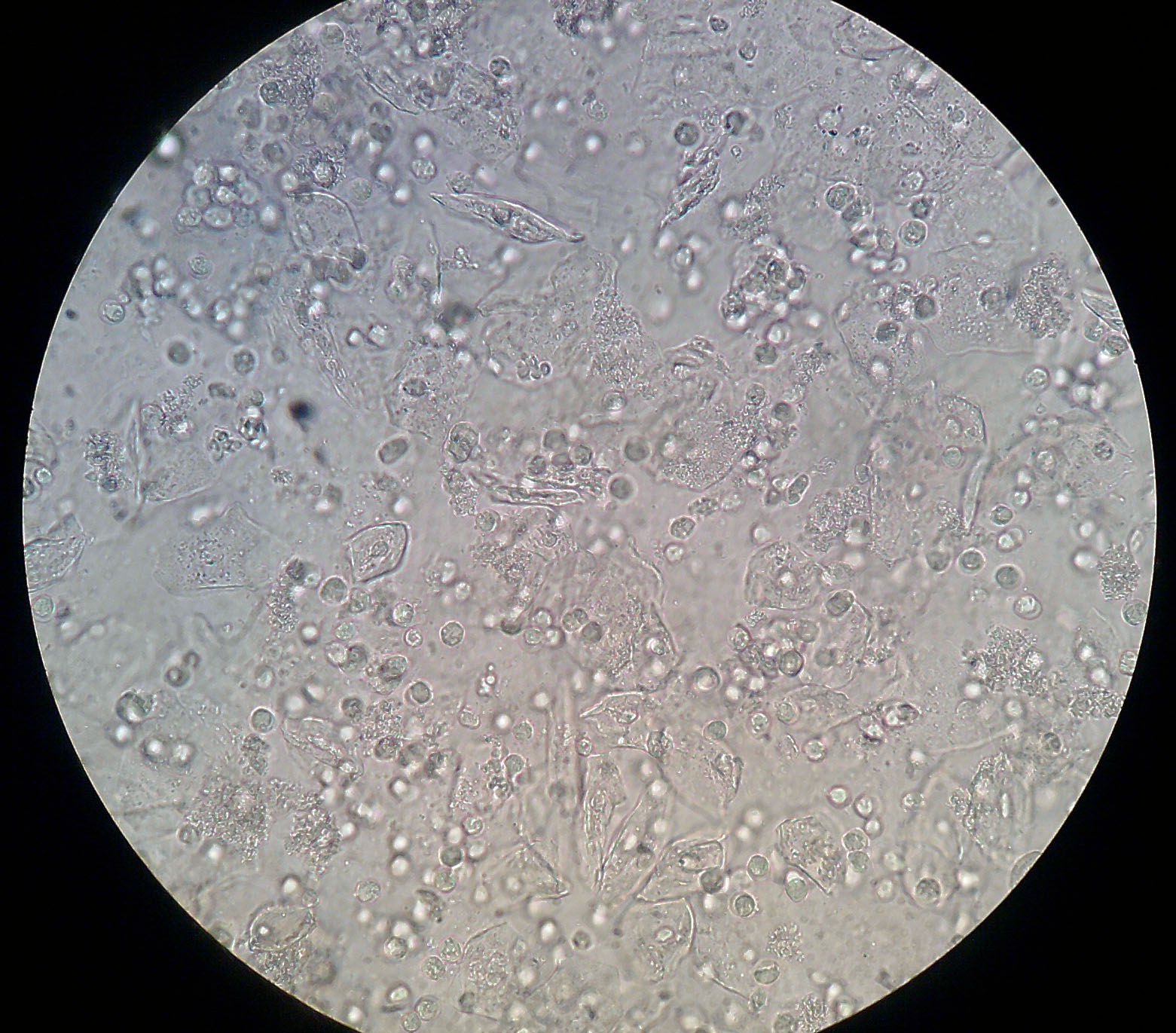 Sample of urine from a patient with urinary infection. It's possible recognize epitelial cells, red blood cells and leukocytes